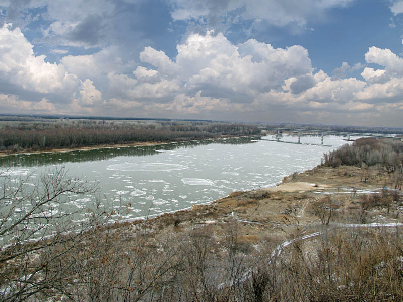 Don in December. Volgograd Region..